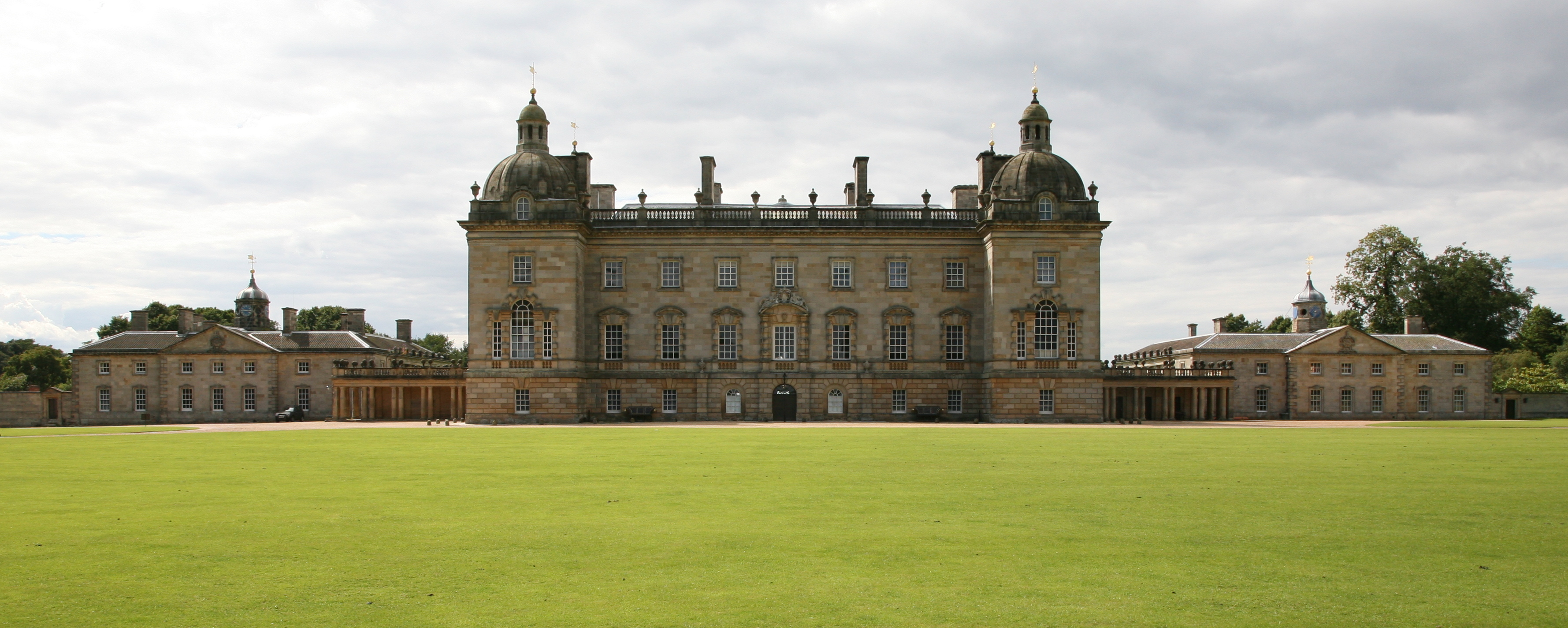 Houghton Hall in Norfolk is an important Palladian building. The architects were Colen Campbell, who began the building, James Gibbs, who added the domes, and William Kent. The east front.